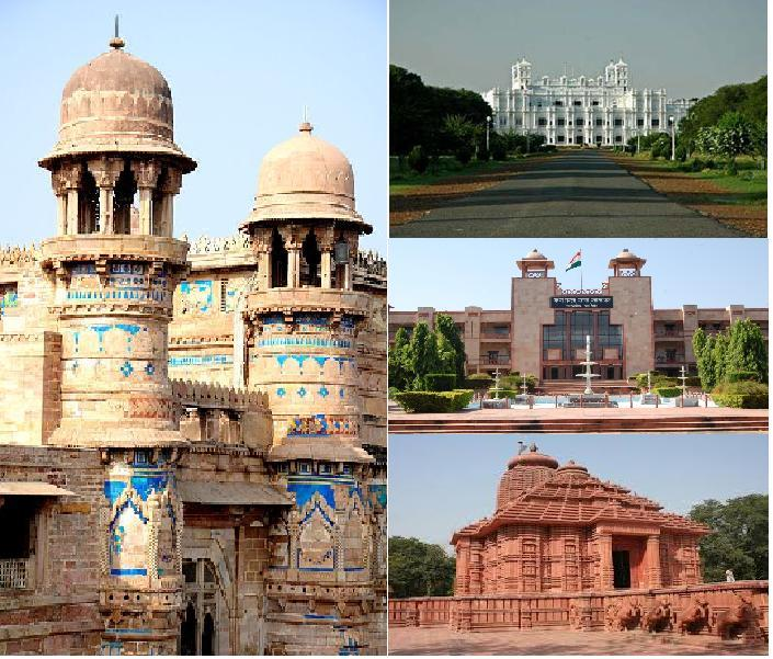 gwalior